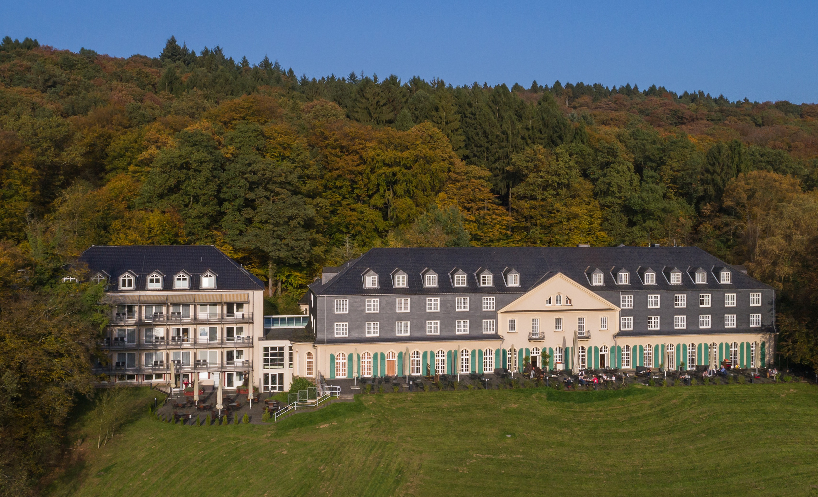 Aerial photo of Hotel Maria in der Aue, Wermelskirchen (Germany)